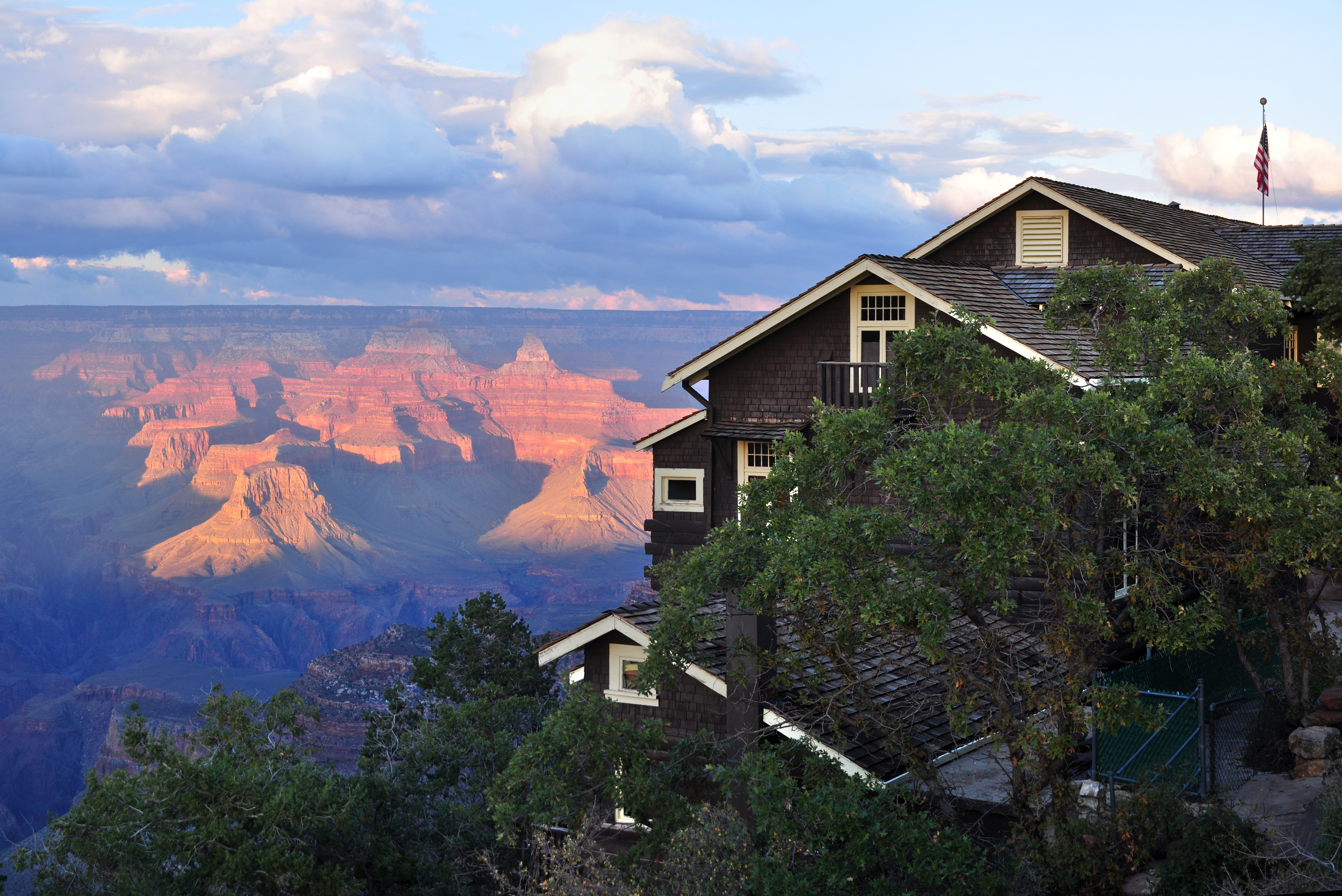 The Kolb Studio — Sunset as seen from Kolb Studio on the South Rim of Grand Canyon. On the edge of the South Rim in Grand Canyon Village, Grand Canyon National Park, Arizona. The historic building is within the Grand Canyon Village Historic District, on the National Register of Historic Places in Grand Canyon National Park. Kolb Studio was constructed on this site from 1904 through 1926. It was a 2 1/2 story structure with the upper level on the rim of the Canyon. This building saw 23 years of expansion and alterations that brought it to its present day appearance. History Ellsworth L. Kolb and Emery C. Kolb played an important role in the early development of visitor services to the Grand Canyon. Ellsworth and Emery came to the Canyon in 1902. Ellsworth worked as a bellman in the Bright Angel Hotel. The brothers eventually bought a photographic studio in Williams, Arizona and brought the equipment to the Grand Canyon. Their business started out photographing parties going down the Bright Angel Trail. Because water supplies were limited on the rim of the Canyon, they would photograph the mule passengers then run 4 1/2 miles to Indian Garden where they had set up a photographic lab. Water was available here for processing the film. Then they returned to the rim of the Canyon with the processed pictures ready for the mule passengers on their return. Credits NPS Photo by Michael Quinn. To plan a visit to Grand Canyon National Park